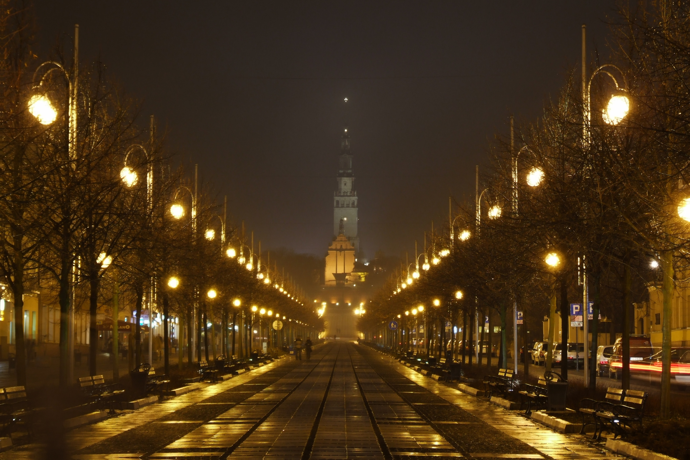 Aleja Najświętszej Maryi Panny - main street in Częstochowa by night Ślůnski: Głůwno cesta we Czynstochowje